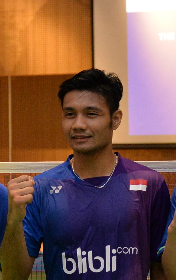 Rian Agung Saputro, Gronya Somerville, Richi Puspita Dili, Sawan Serasinghe, Berry Angriawan, Matthew Chau, Riky Widianto and Setyana Mapasa at the friendly match between Australia and Indonesia at the Australian Embassy Jakarta in 2016